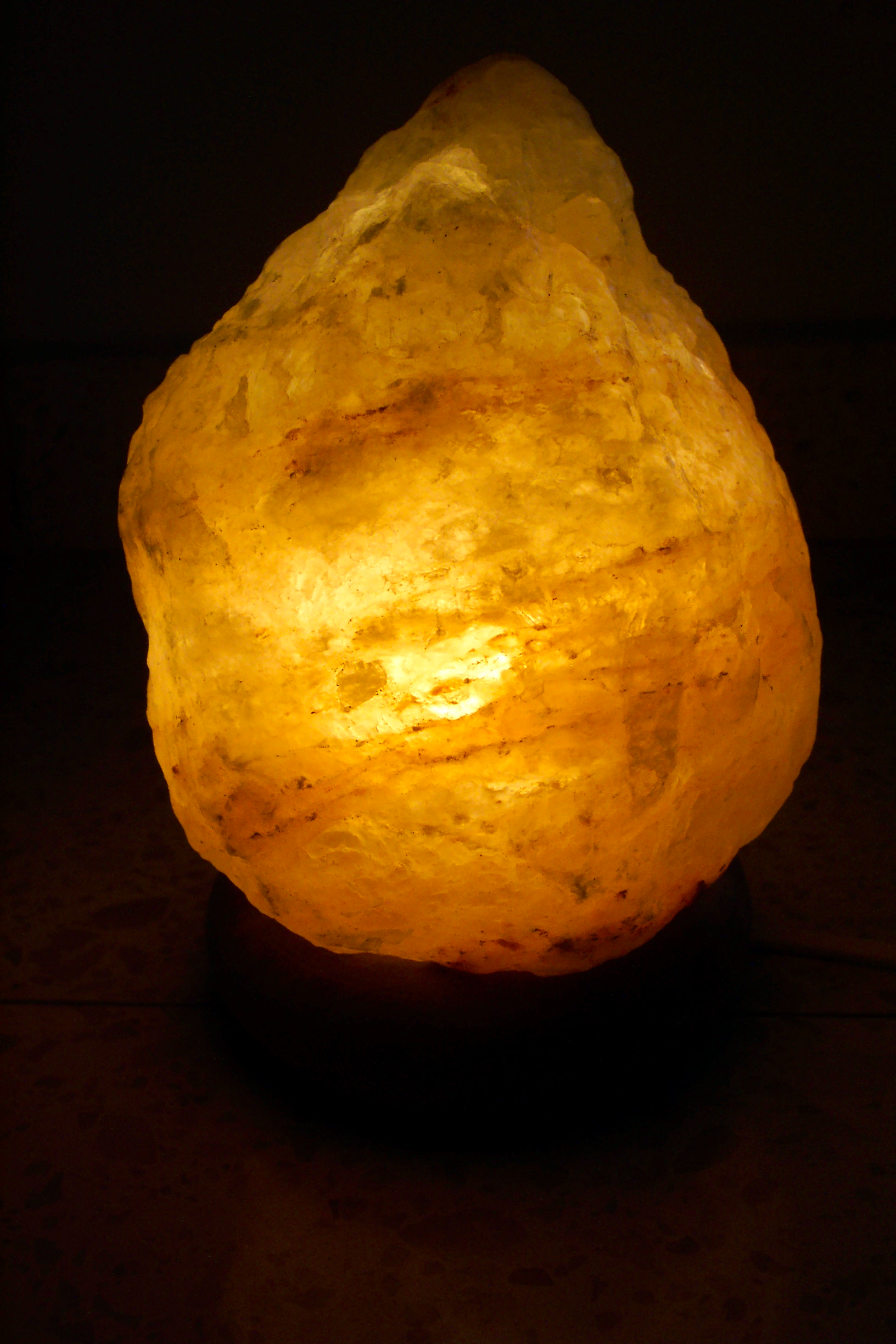 Stones in Israel